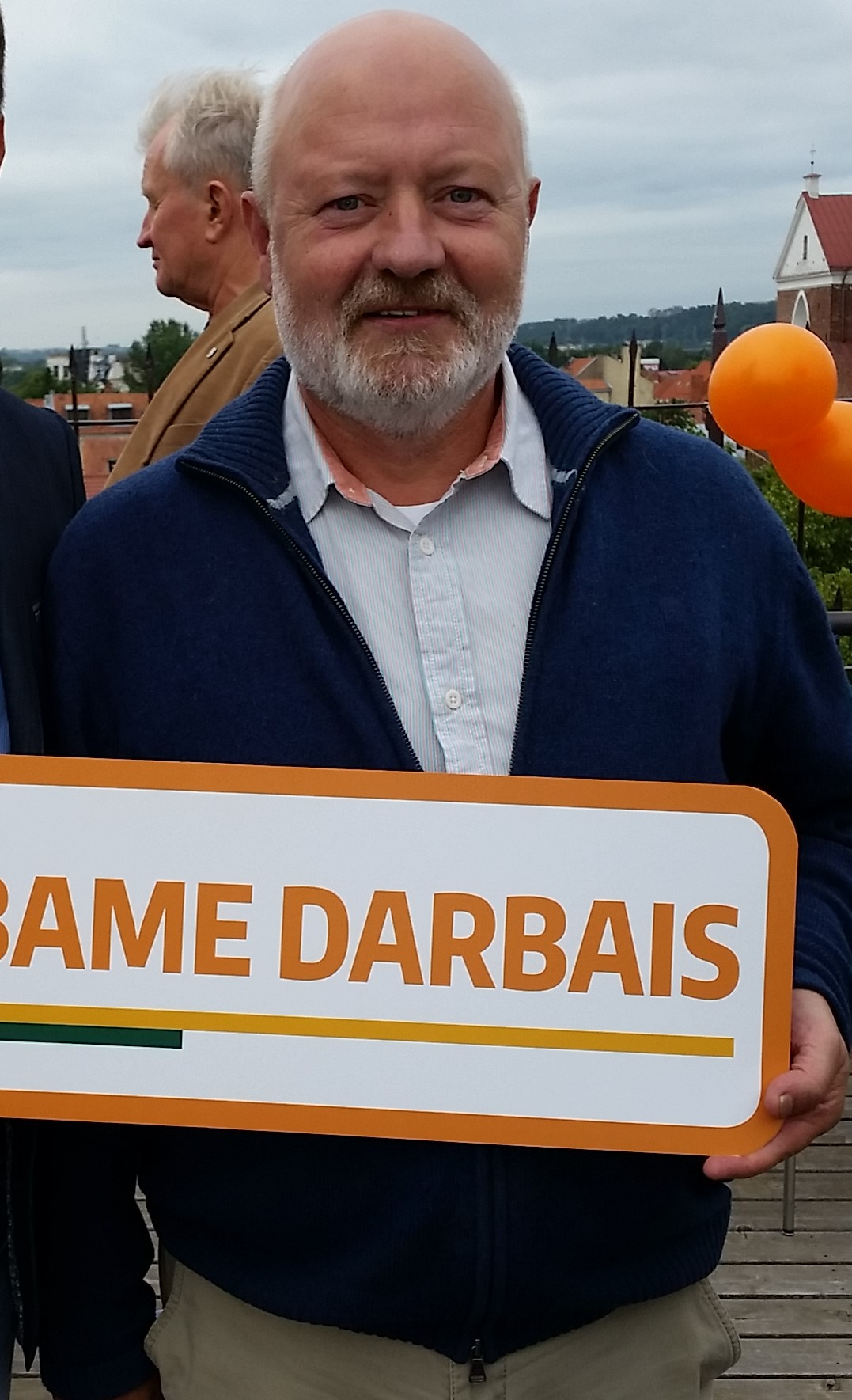 Eugenijus Gentvilas 2016